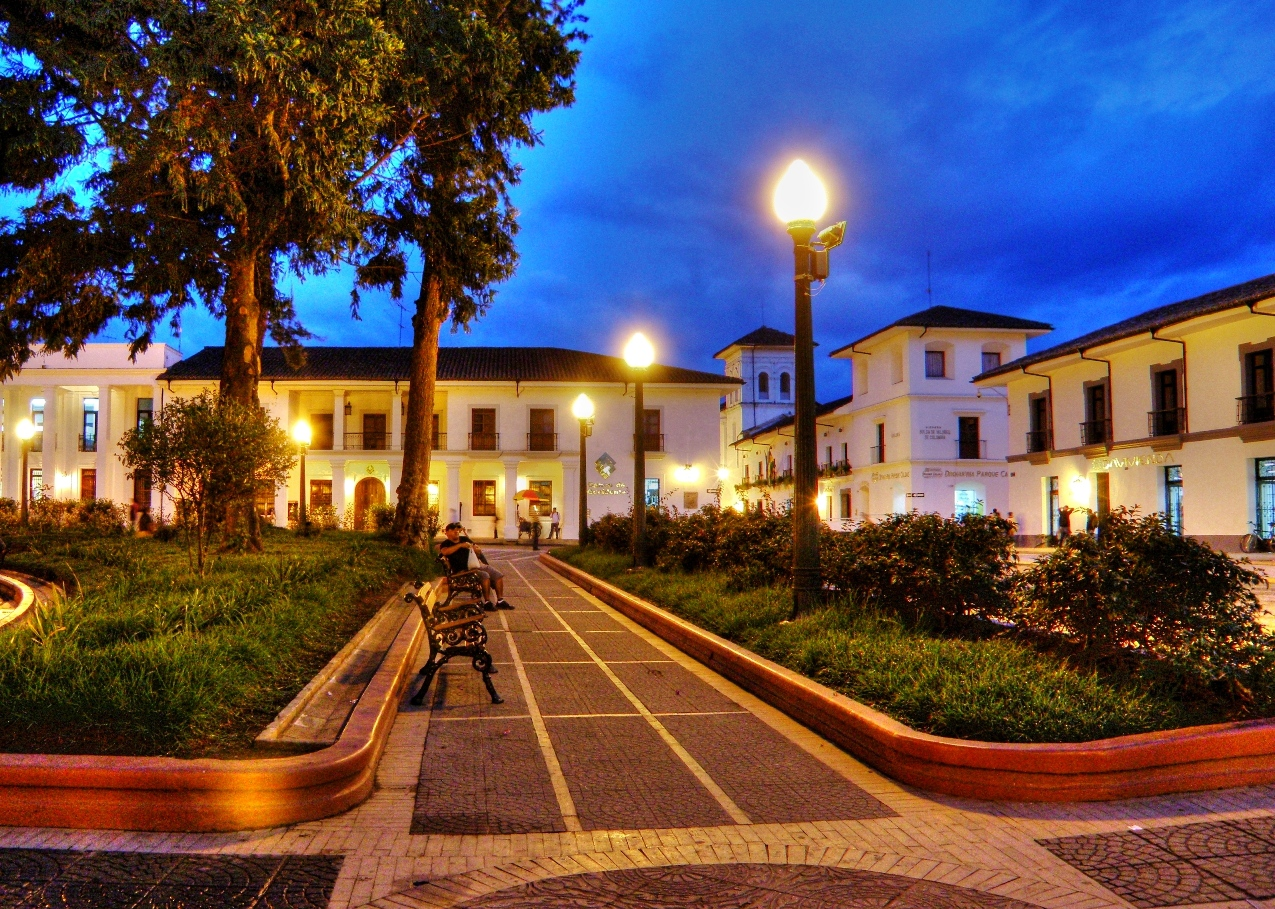 Colonial Buildings of Popayán